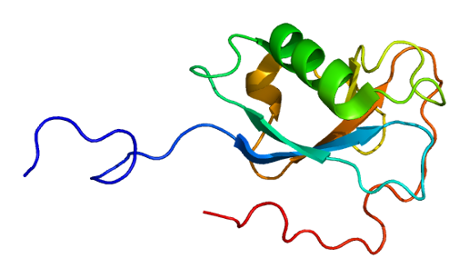 Structure of the DCX protein. Based on PyMOL rendering of PDB 1mjd.